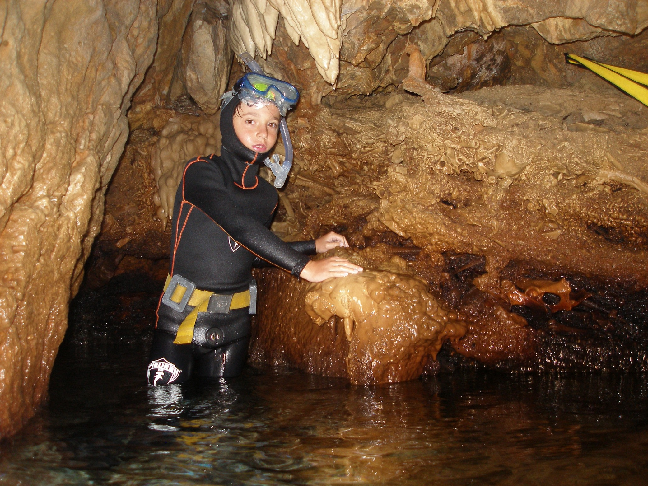 Fossil Megacero Deers in Deers cave in Punta Giglio Alghero Sardinia